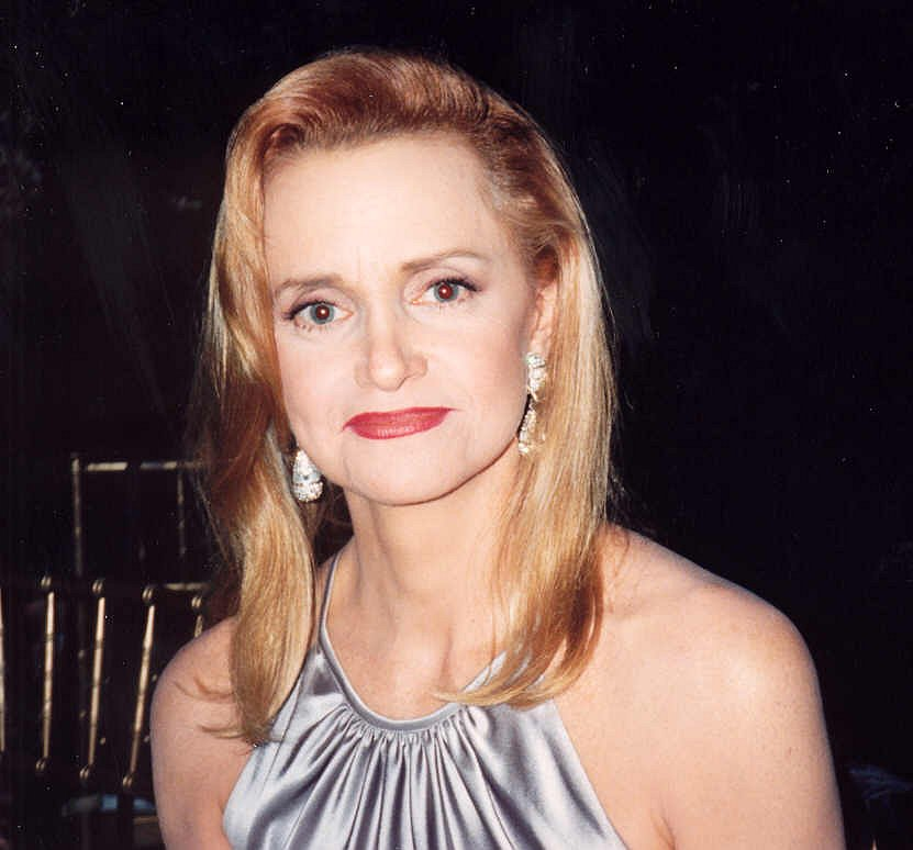 Swoozie Kurtz at the Governor's Ball after the Emmy telecast 9/11/94